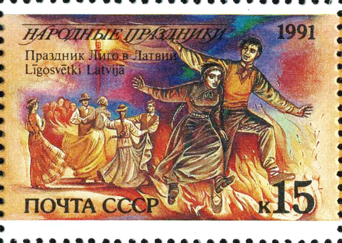 A USSR stamp